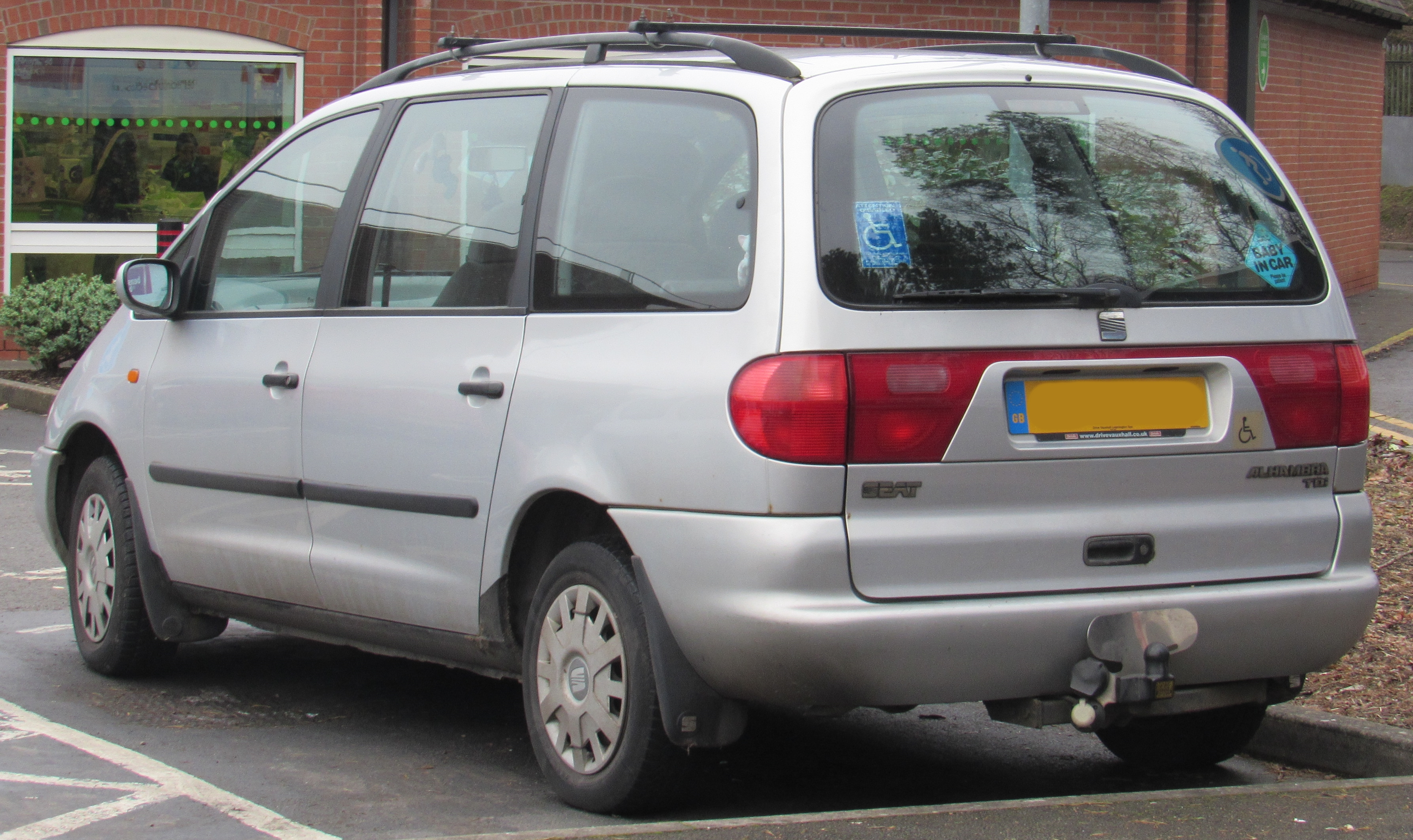 1997 SEAT Alhambra TDi 1.9 Rear Taken in Leamington Spa